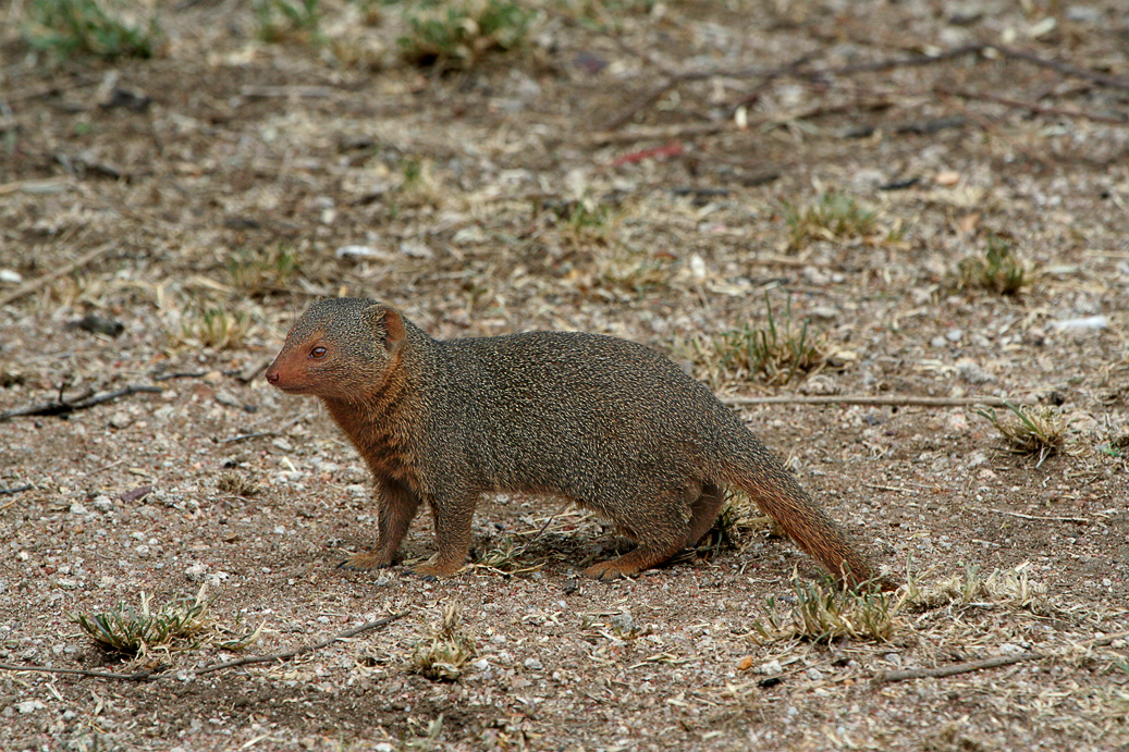 A Dwarf Mongoose in the Serengeti, Tanzania